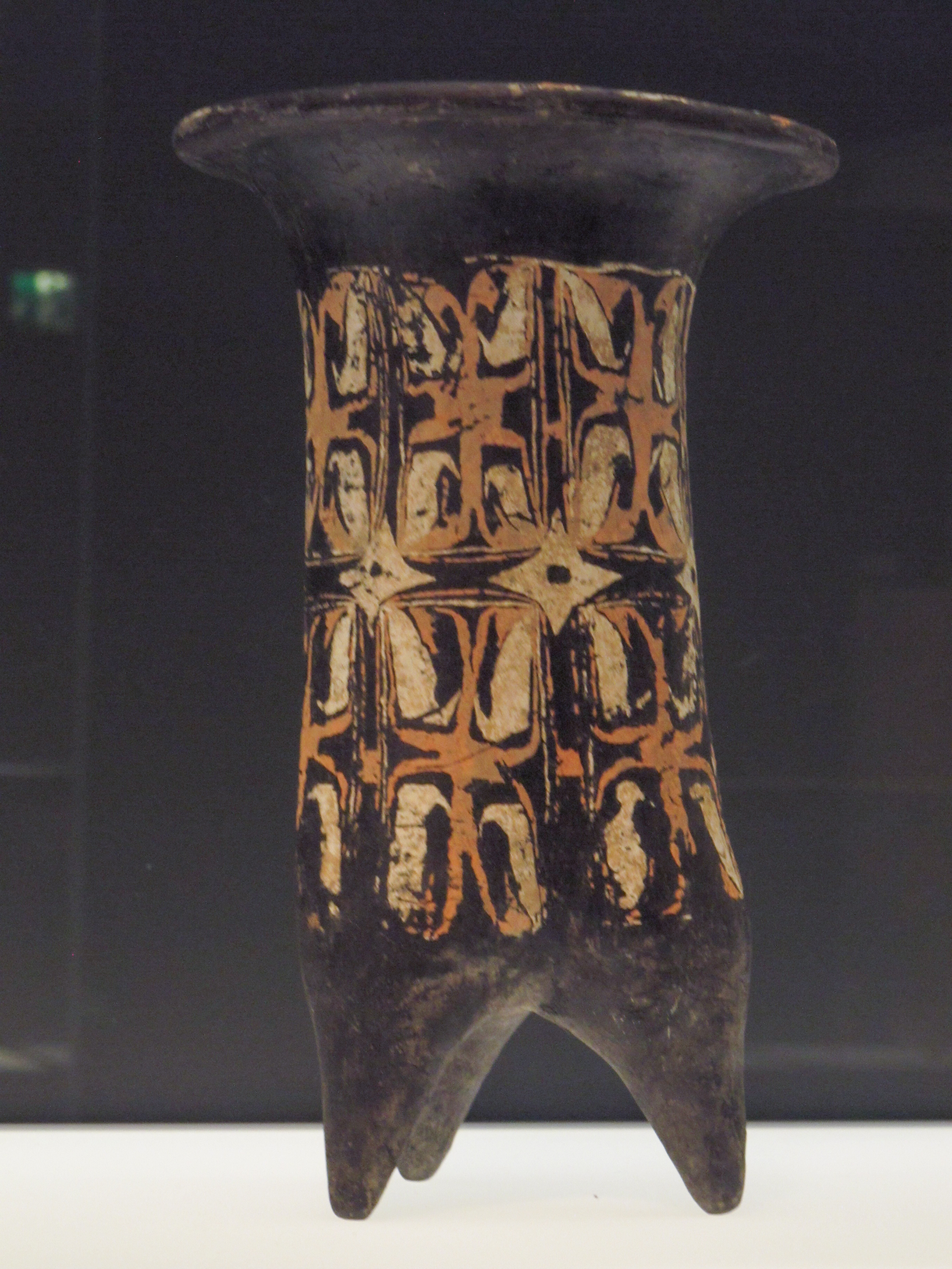 Tripod jar of the type li. China, Inner Mongolia or Liaoning. Lower Xiajiadian culture, mid-2nd millenium BC. Rietberg museum, Zürich, Swiss.